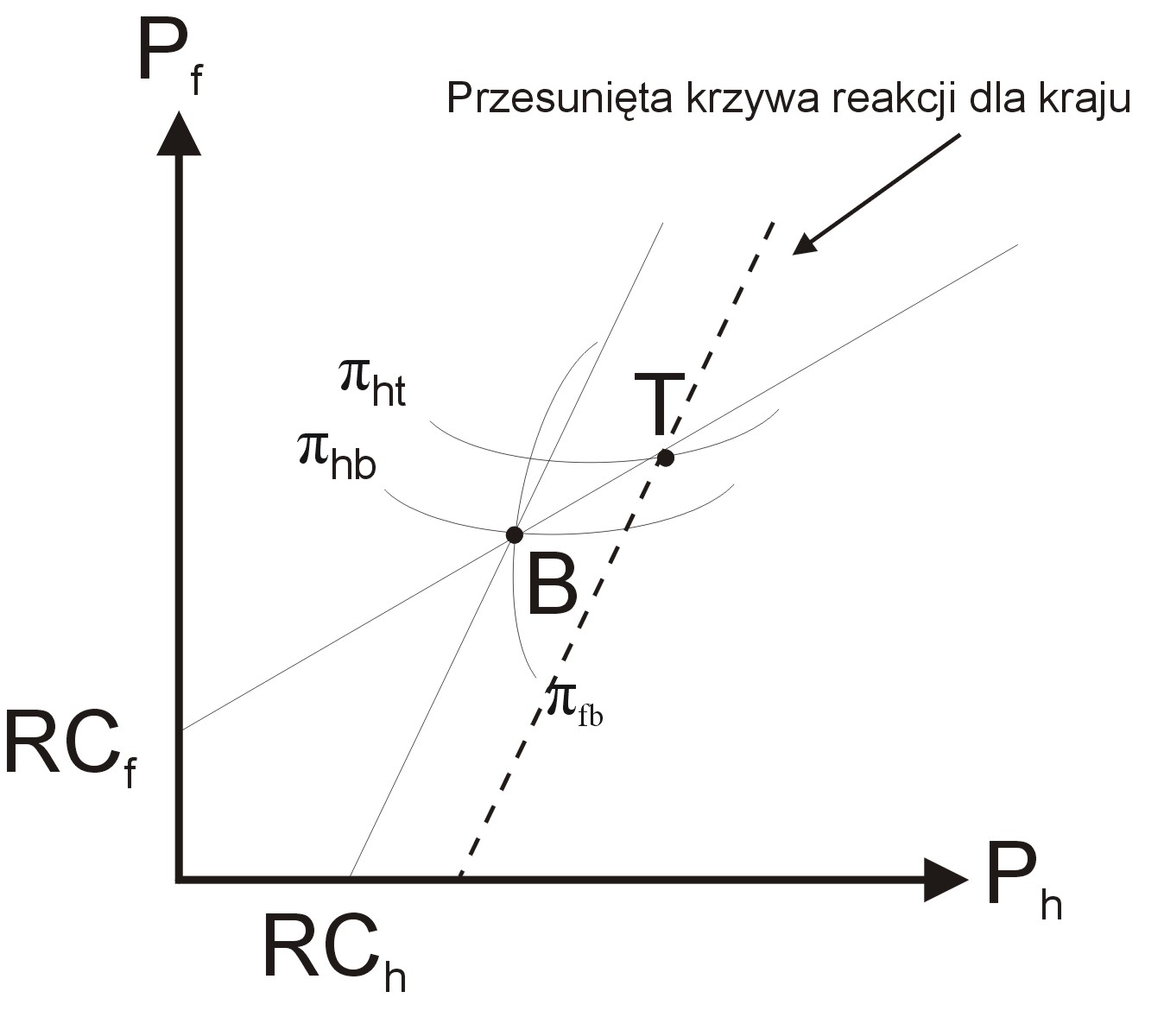 File decribes analytical model of one of strategic trade Theory - Bertrand Equation